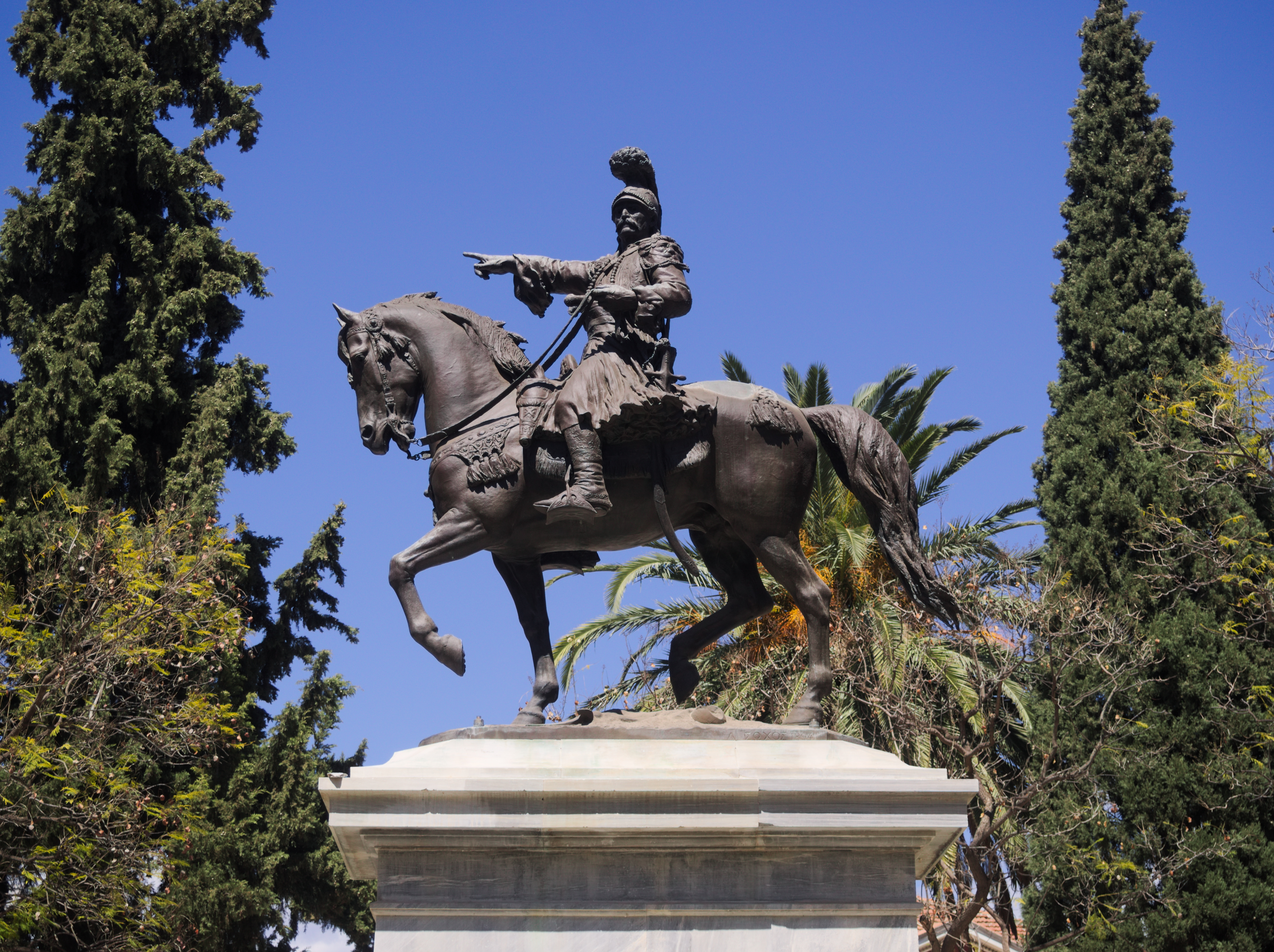 The equestrian statue of Theodoros Kolokotronis at Kolokotronis park, Nafplion. Work of Lazaros Sochos (1862-1911), it was revealed in 1901. A similar statue exists in front of the Old Parliament, in Athens.